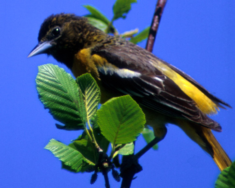 "Northern Oriole" (now known as Baltimore Oriole (Icterus galbula)) at Seney National Wildlife Refuge